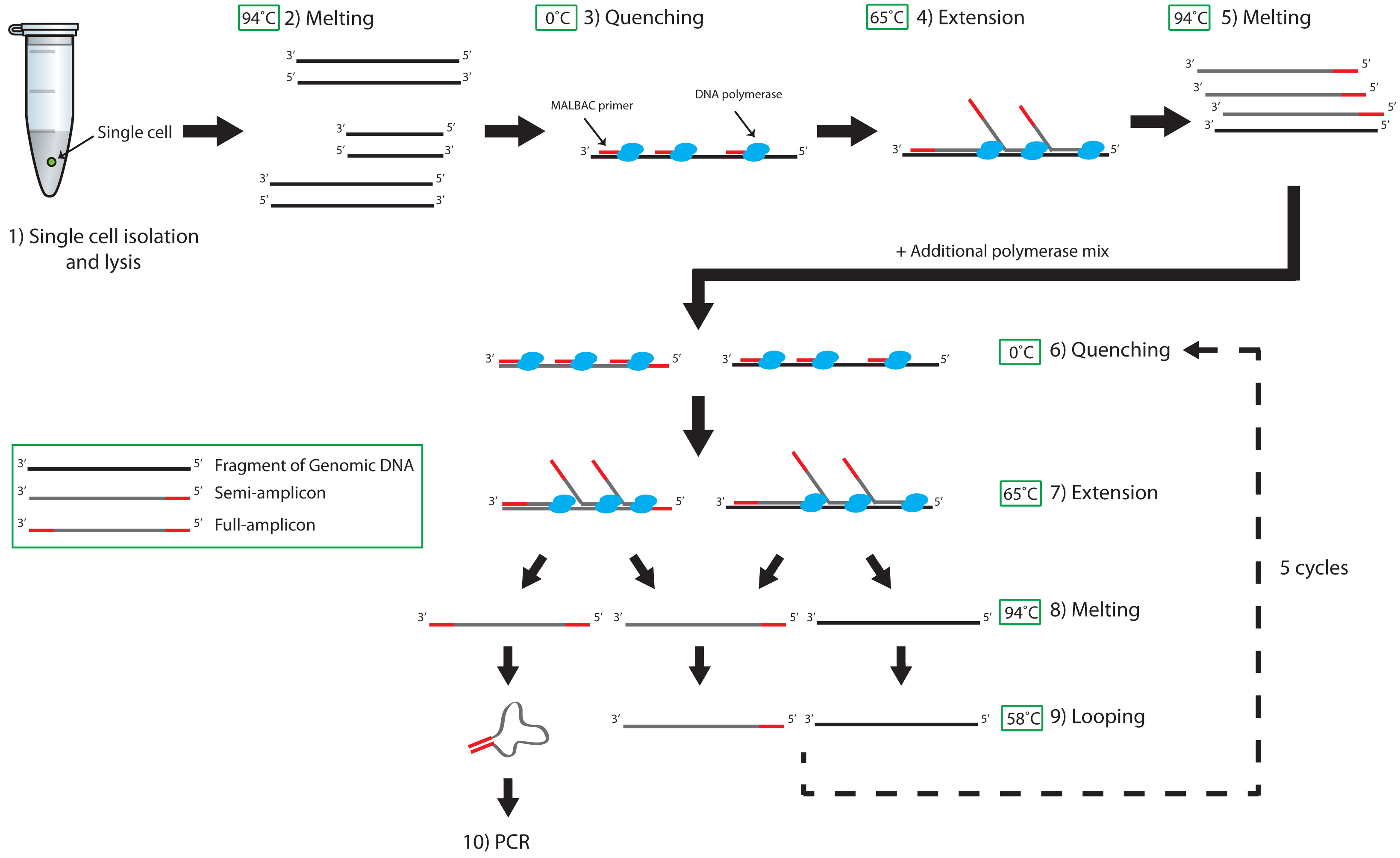 MALBAC is a quasilinear whole genome amplification method. Unlike conventional PCR, MALBAC amplicons are looped using MALBAC primers and therefore prevented from amplifying exponentially.